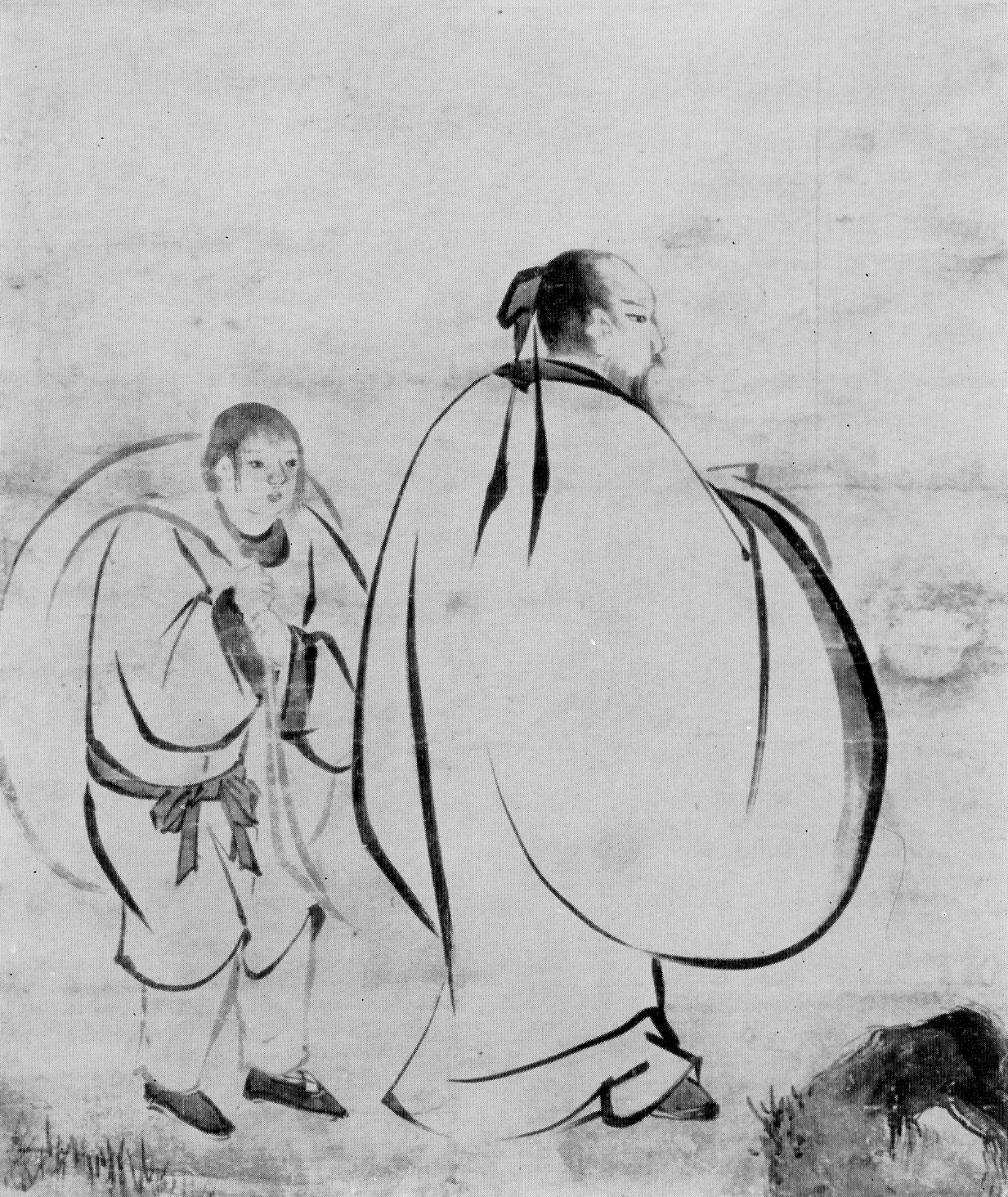 Seven sages, detail